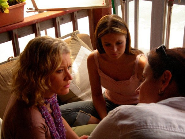 On the set of Loving Annabelle, discussing scenes with Erin Kelly and Diane Gaidry, 2005